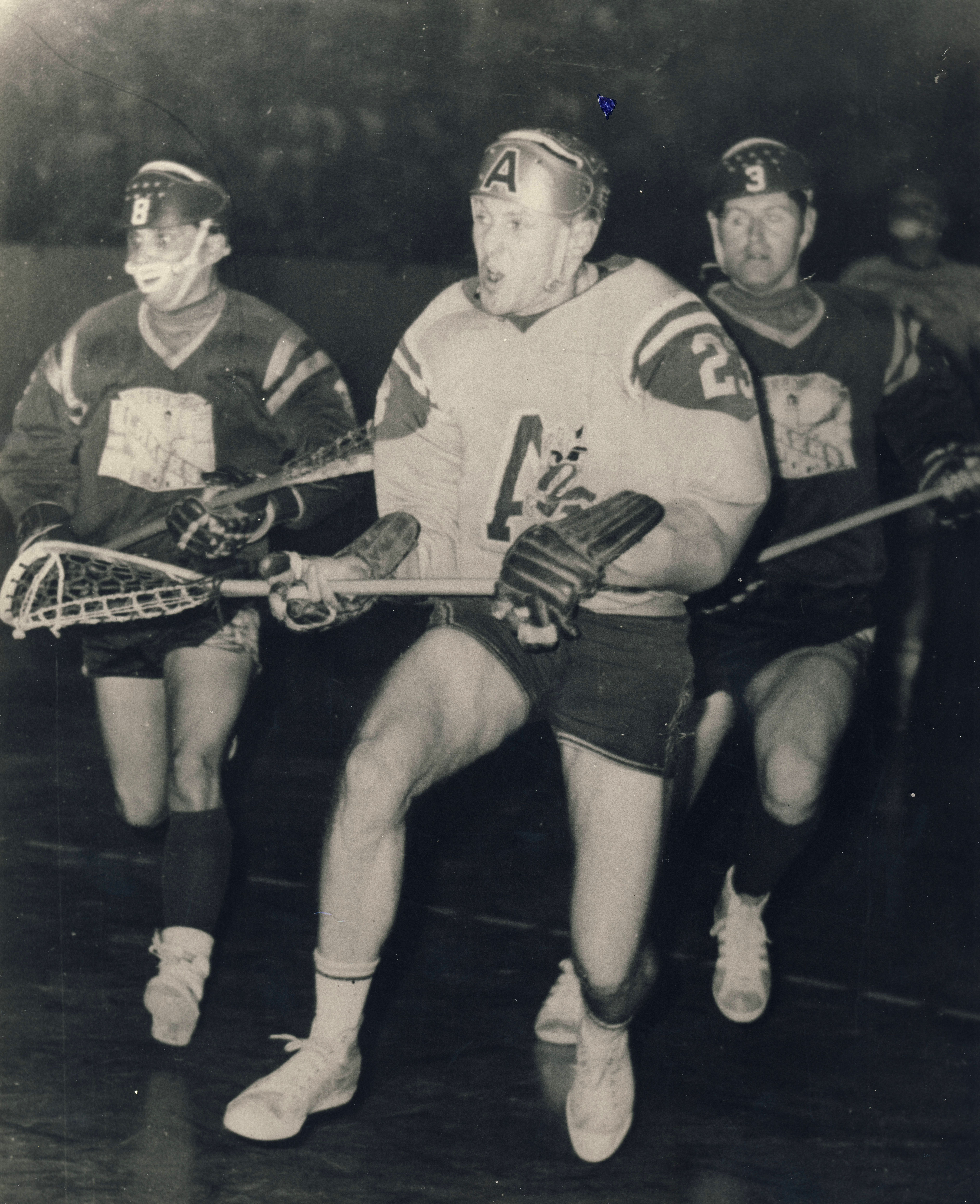 photo for person page is being created for